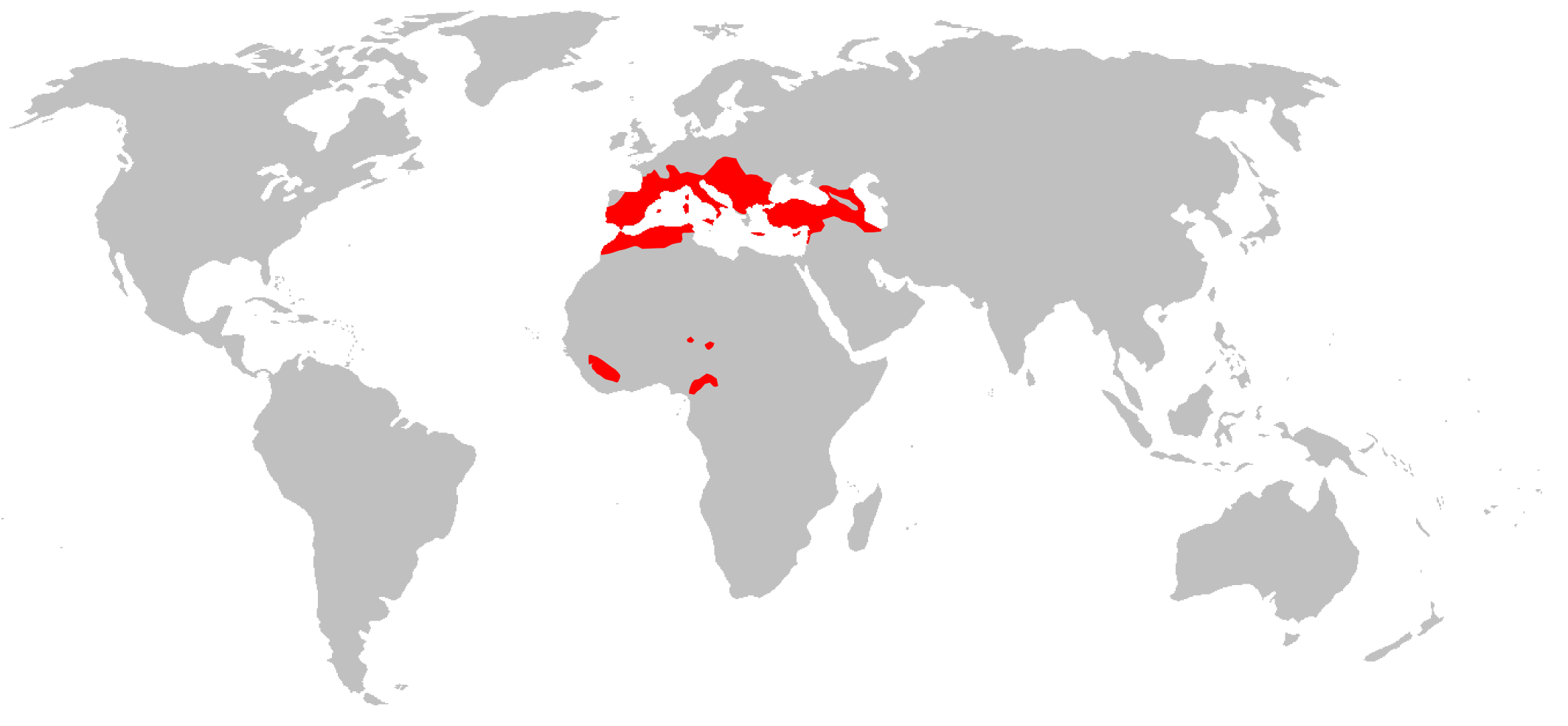 Miniopterus schreibersii range map.